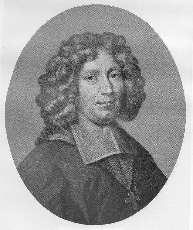 The French churchman and scholar Pierre Daniel Huet, (1630–1721)